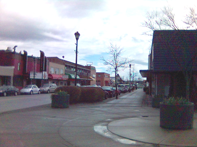 The main street in historic Cloverdale, British Columbia, a.k.a. "Main Street, Smallville." The Clova Cinema ("The Talon") is seen on the left and "Fordman's Hardware" is on the right.